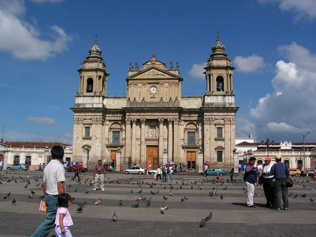 Catedral Metropolitana, Guatemala City.